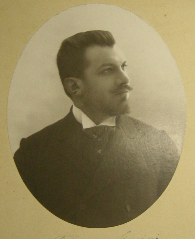 Picture of the beginning of XX century (1900-1903)